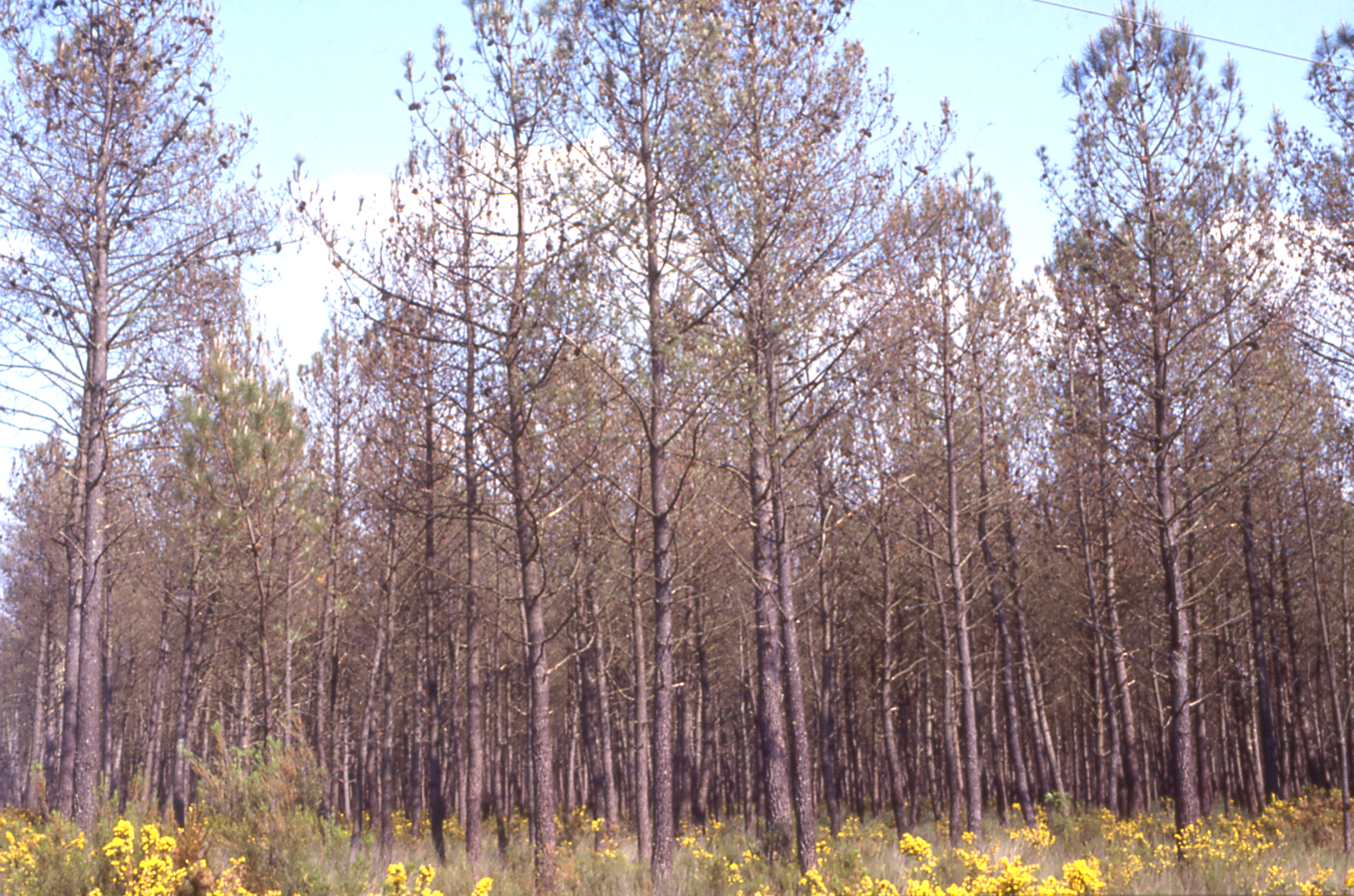 Dying pine forest in the Landes (France).